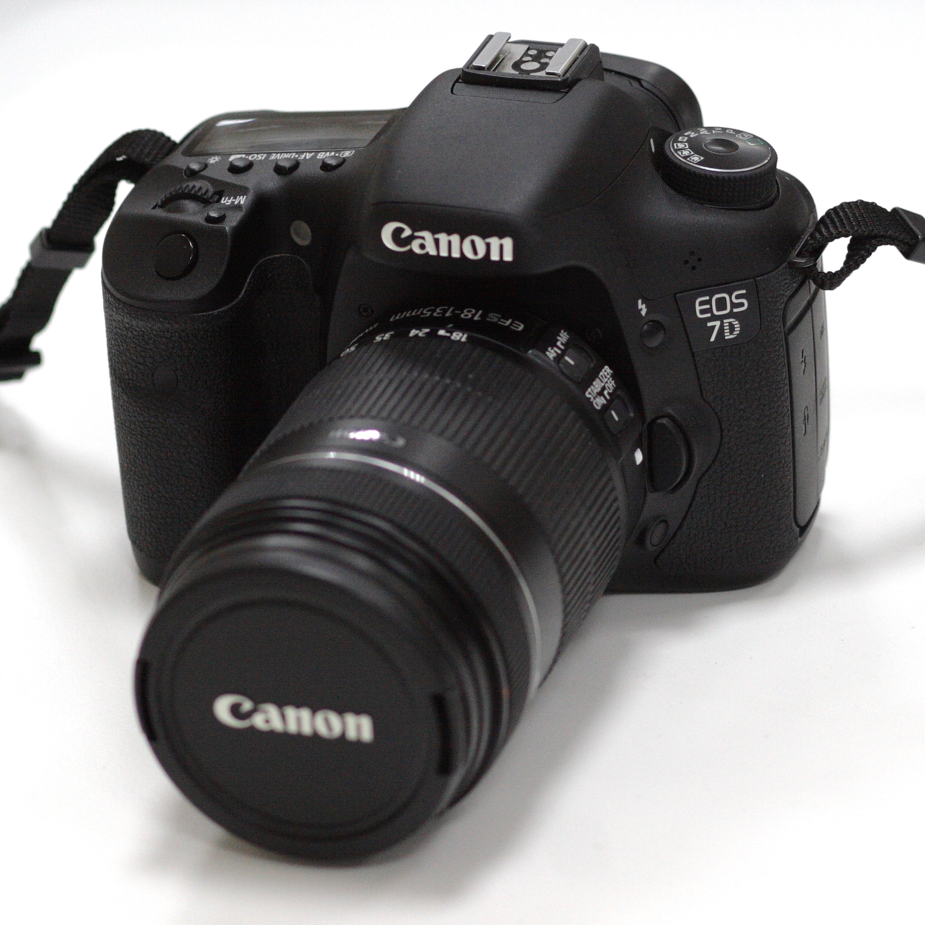 Canon EOS 7D with Canon EF-S 18-135mm lens.